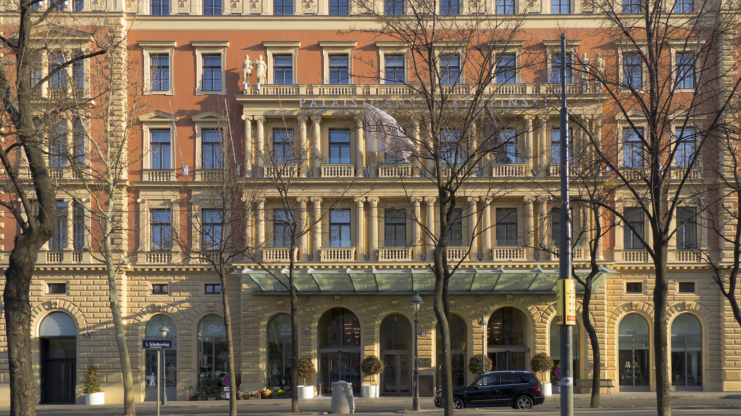 Palais Hansen in Vienna 1